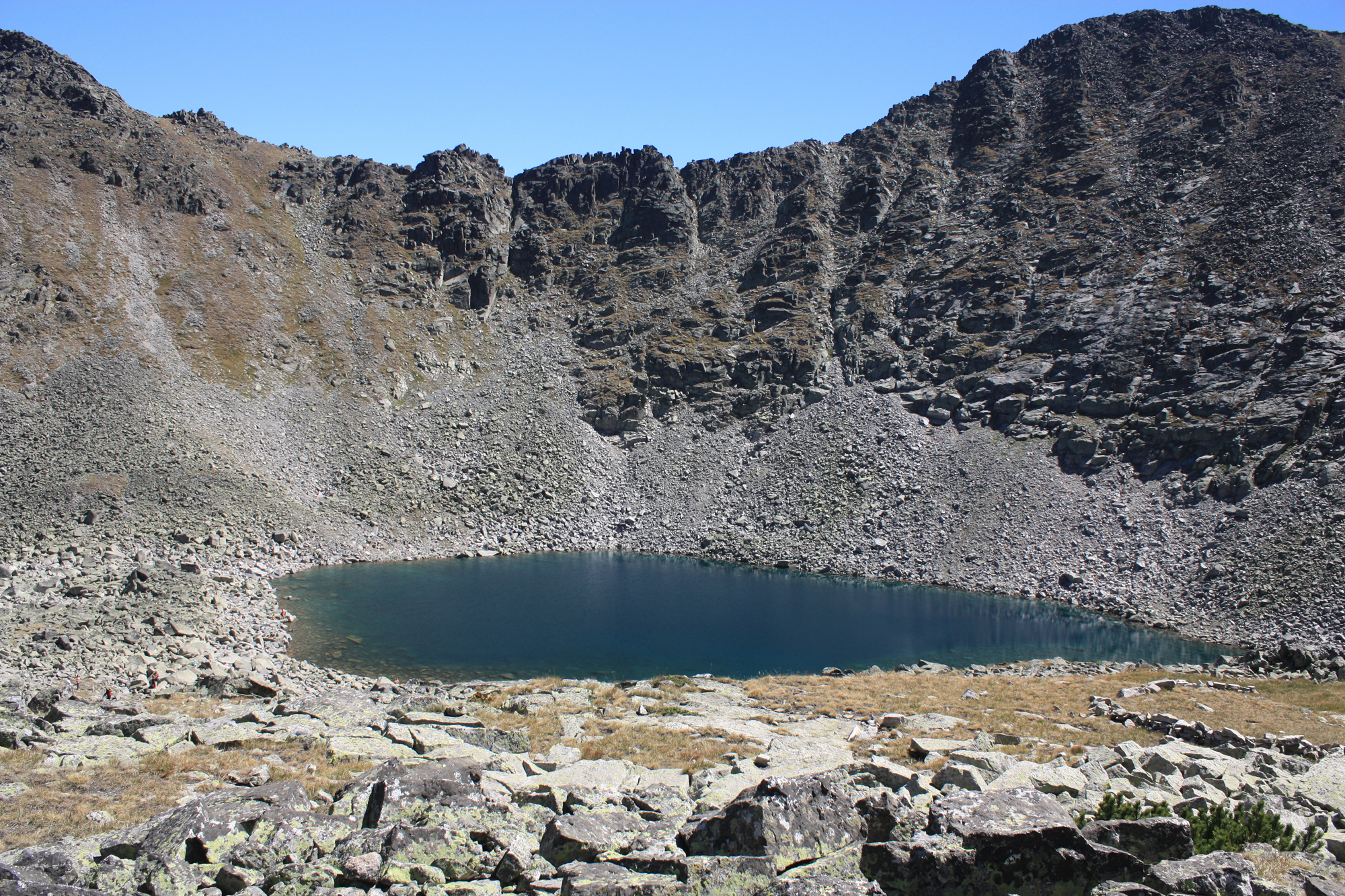 The Icy Lake (Ledenoto Ezero), under Musala Peak on Rila Mountain